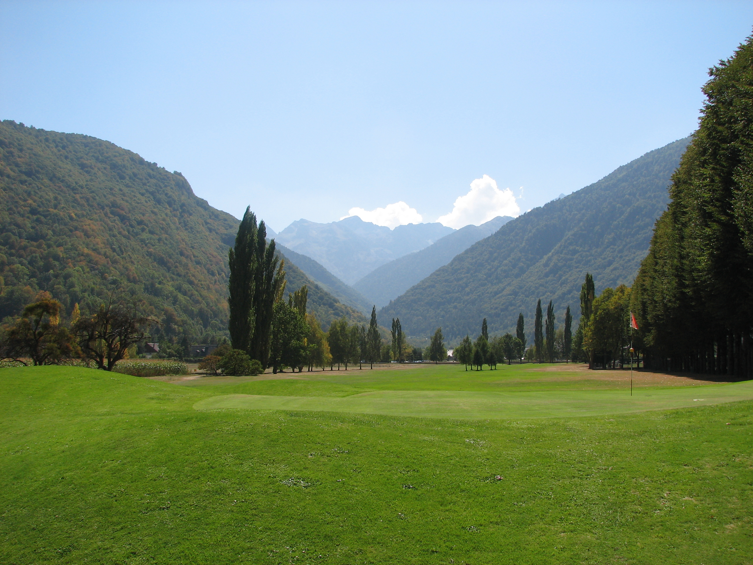 9th green, golf course, bagneres de luchon, France